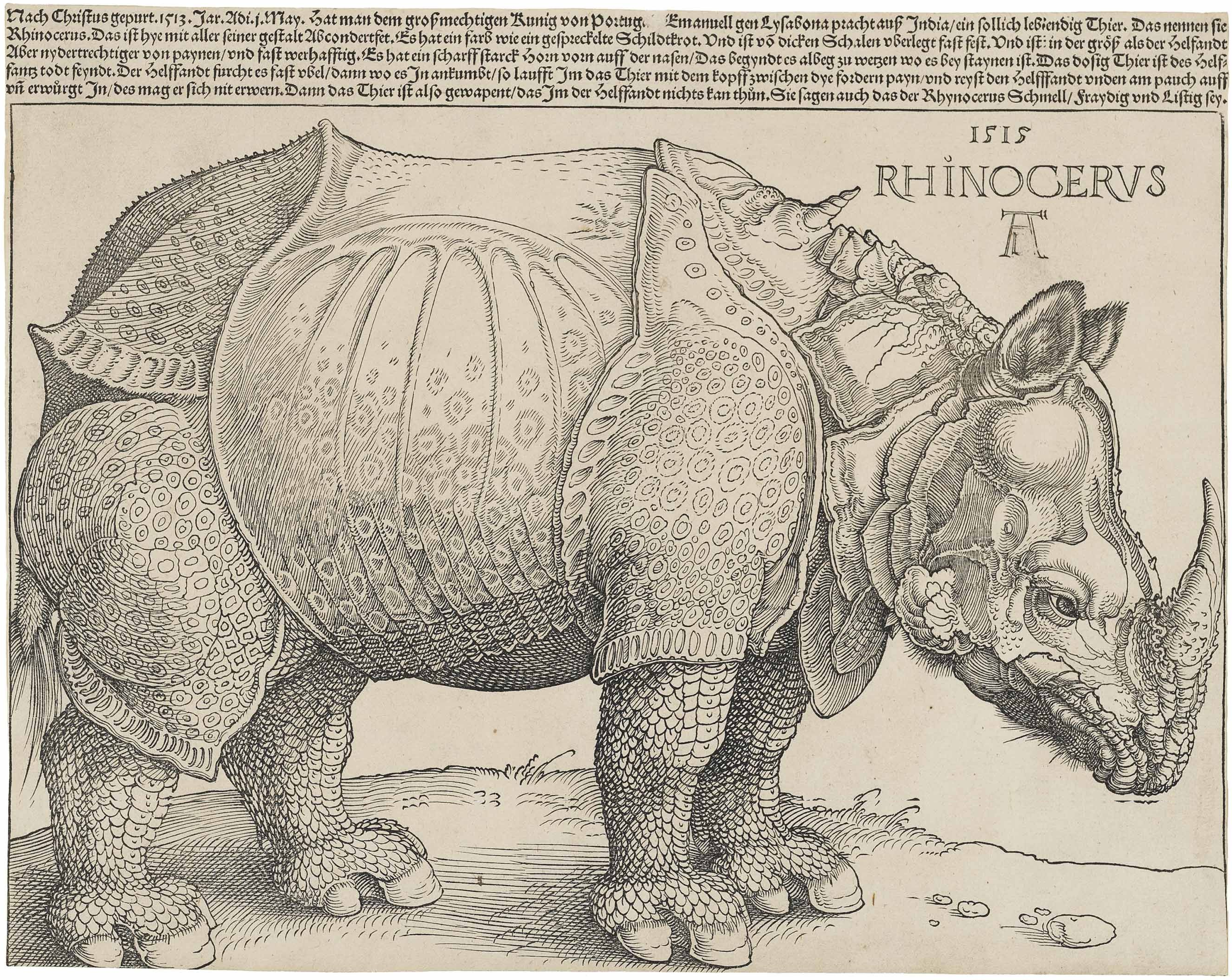 first edition woodcut with complete letterpress text above.